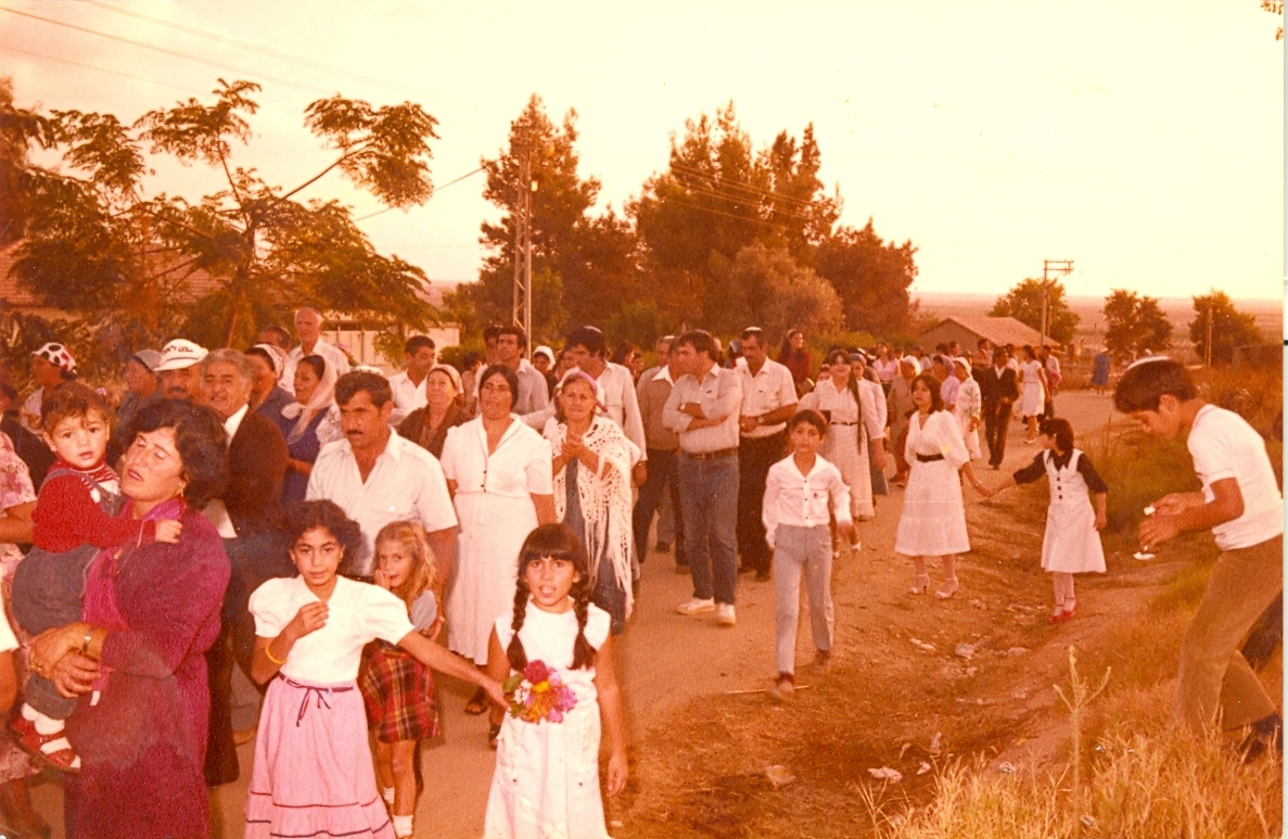 Entertainment